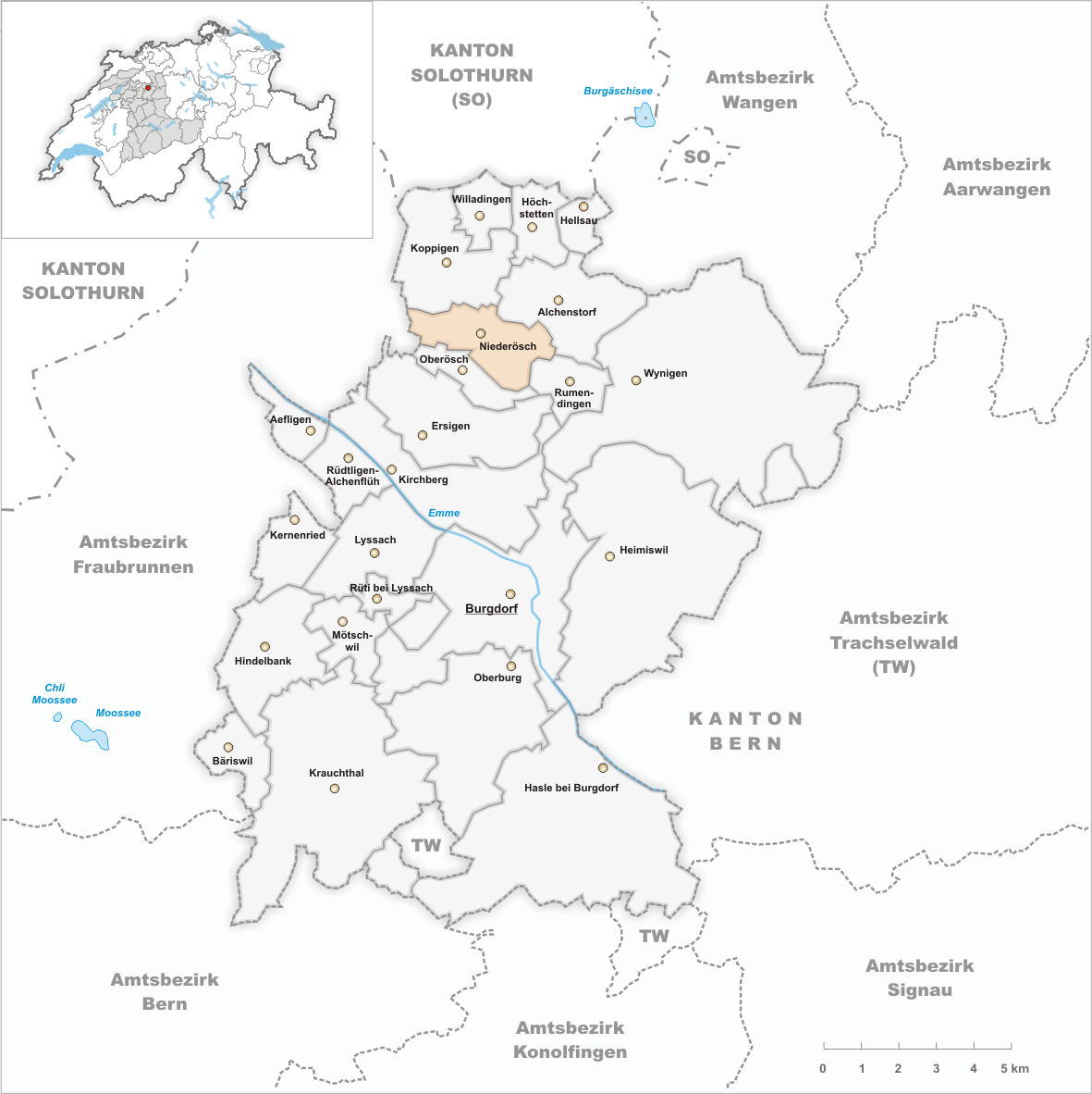 Municipality Niederösch